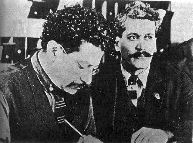 Is an image of the brothers Ricardo Flores Magon and Enrique Flores Magon two of the most influyents SindicalAnarquist thinkers of the Mexican Revolution and in favor of the antirelectionism